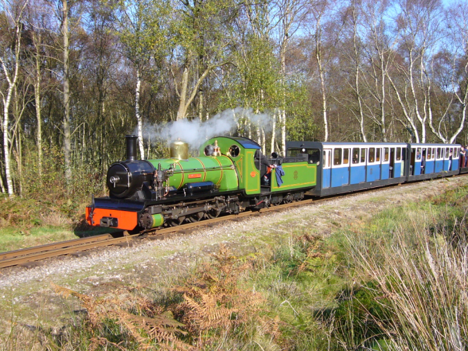 River Irt hauls the 1130 Dalegarth for Boot - Ravenglass into Miteside Loop, October 24 2007.